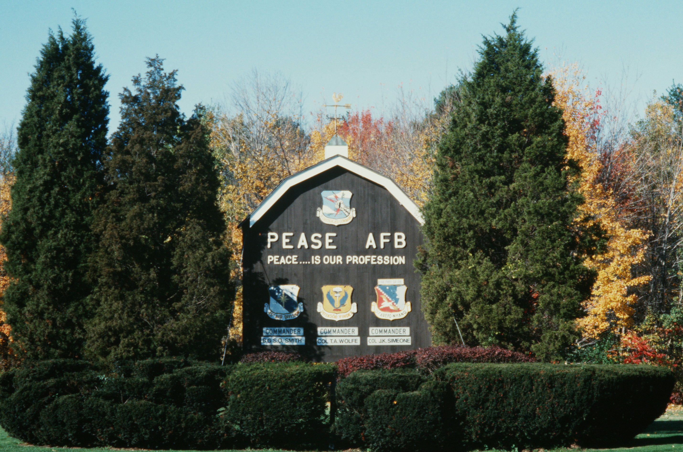 A view of the main gate at Pease Air Force Base New, Hampshire on October 18th, 1987. The shields on the sign represent Strategic Air Command; the 45th Air Division; the 509th Bombardment Wing; and the 157th Air Refueling Group-N.H. Air National Guard. (U.S. Air Force photo/Master Sgt. Dave Casey)